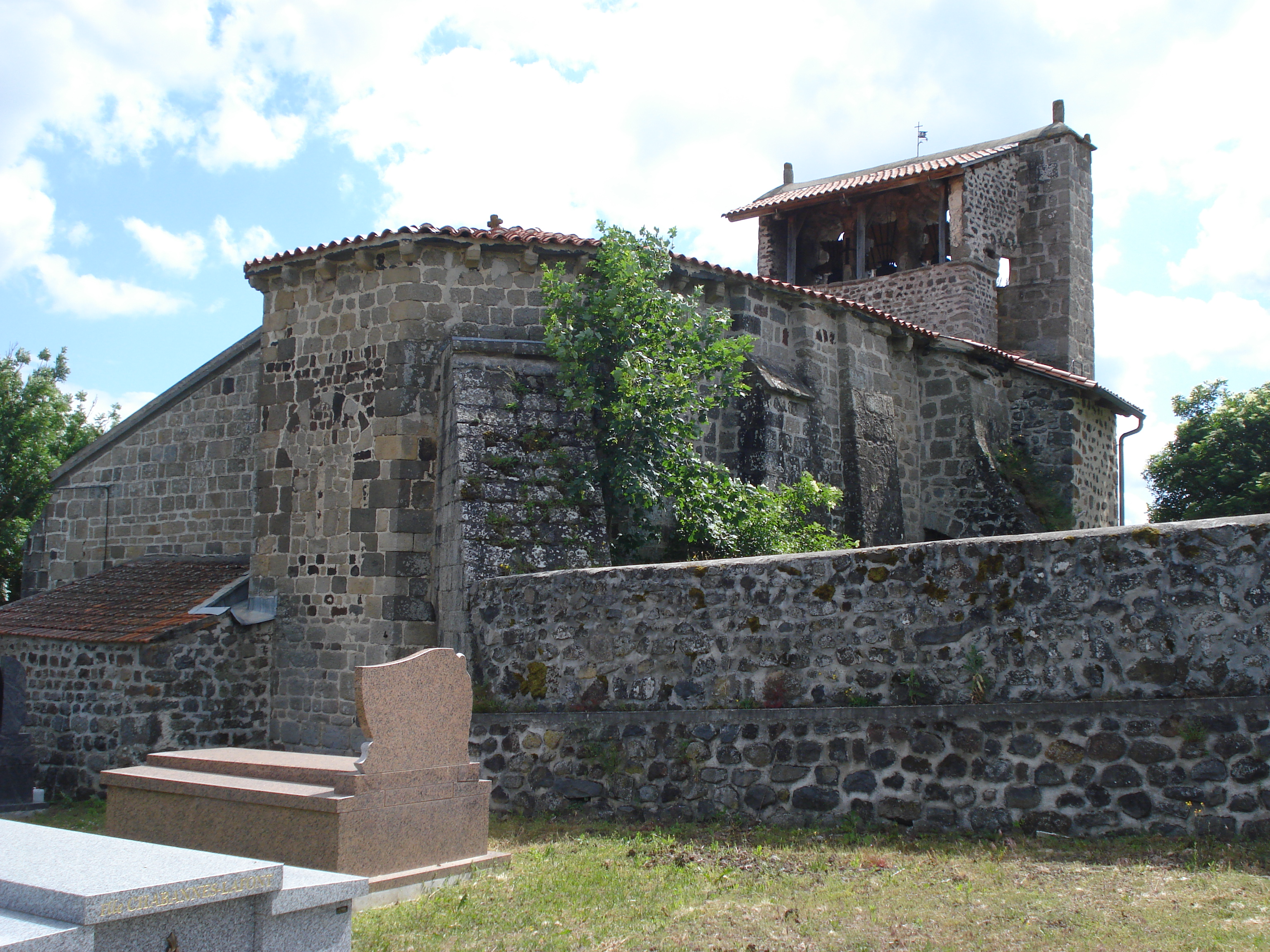 Rauret (Haute-Loire, Fr) church, apse and bell gable